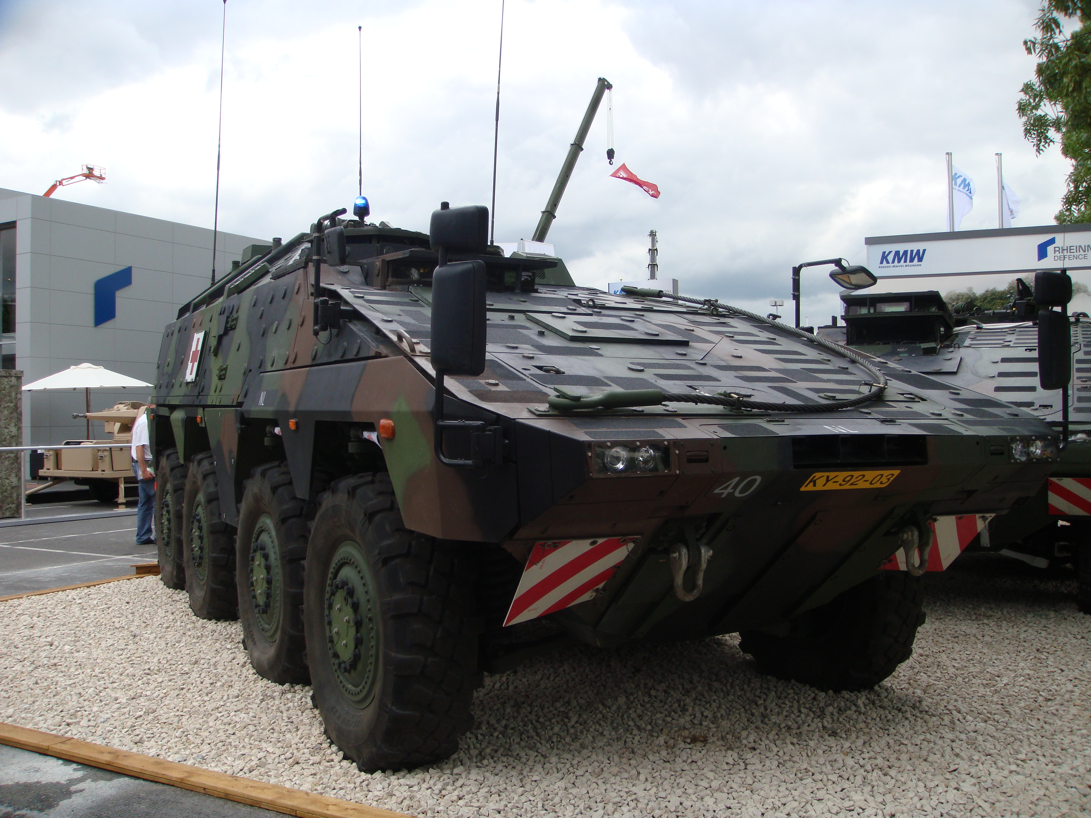 A "Boxer" wheeled vehicle, by Germany's Krauss-Maffei-Wegmann.